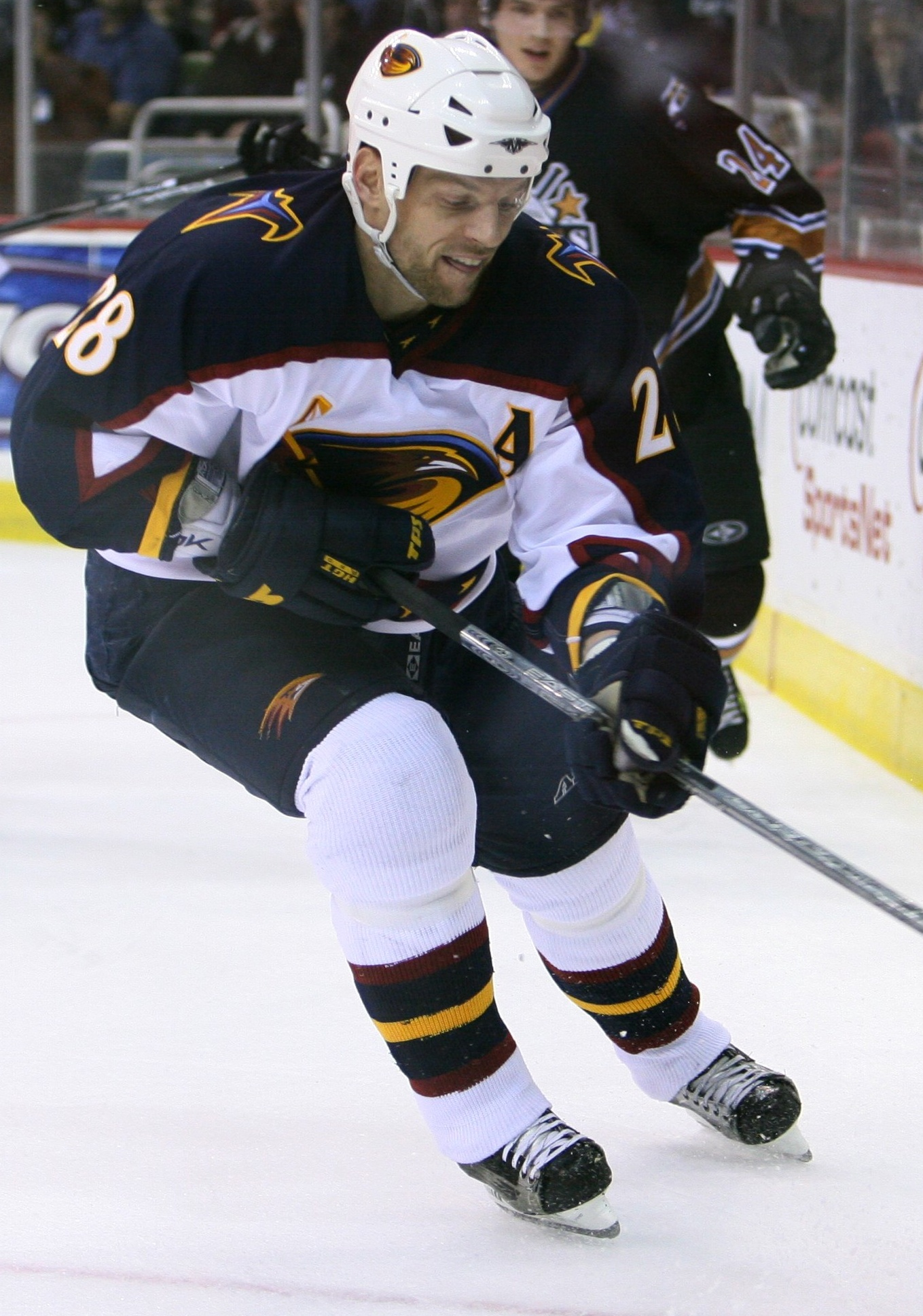 Niclas Havelid